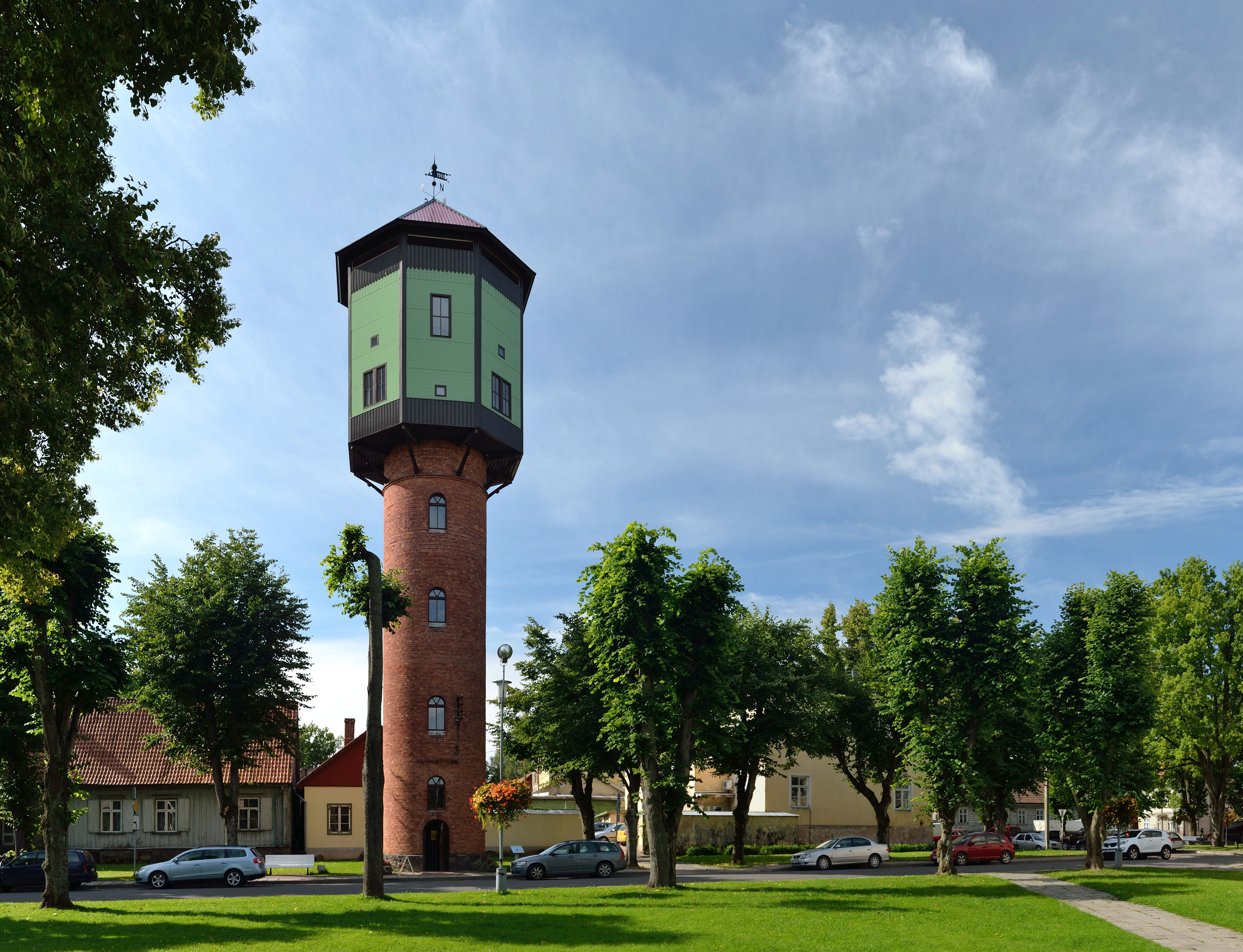 Old water tower in Viljandi, built in 1911.